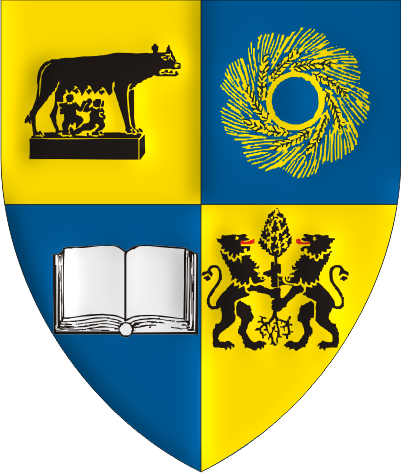 Coat of arms of Cluj County, Romania.